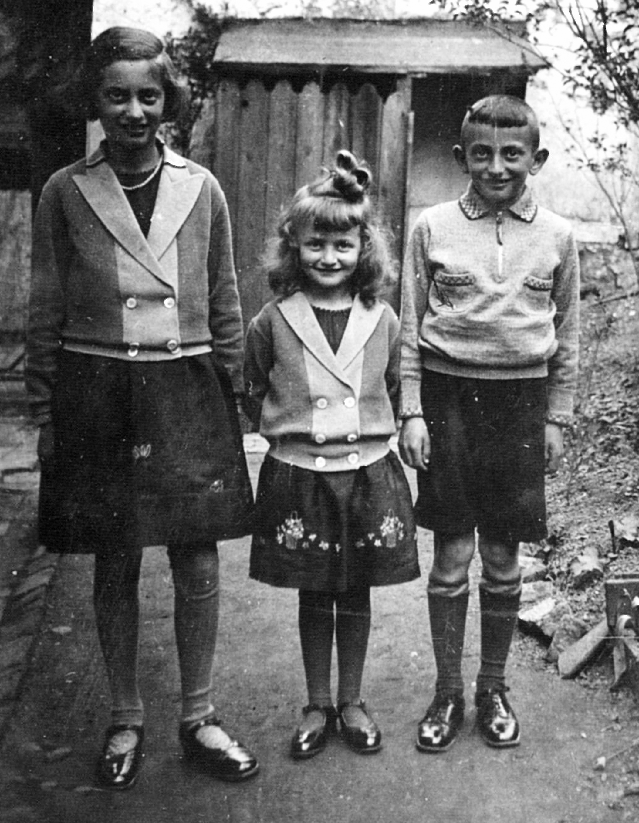 Hilde Sherman and her younger siblings, Ruth and Herbert, who both perished in the holocaust.